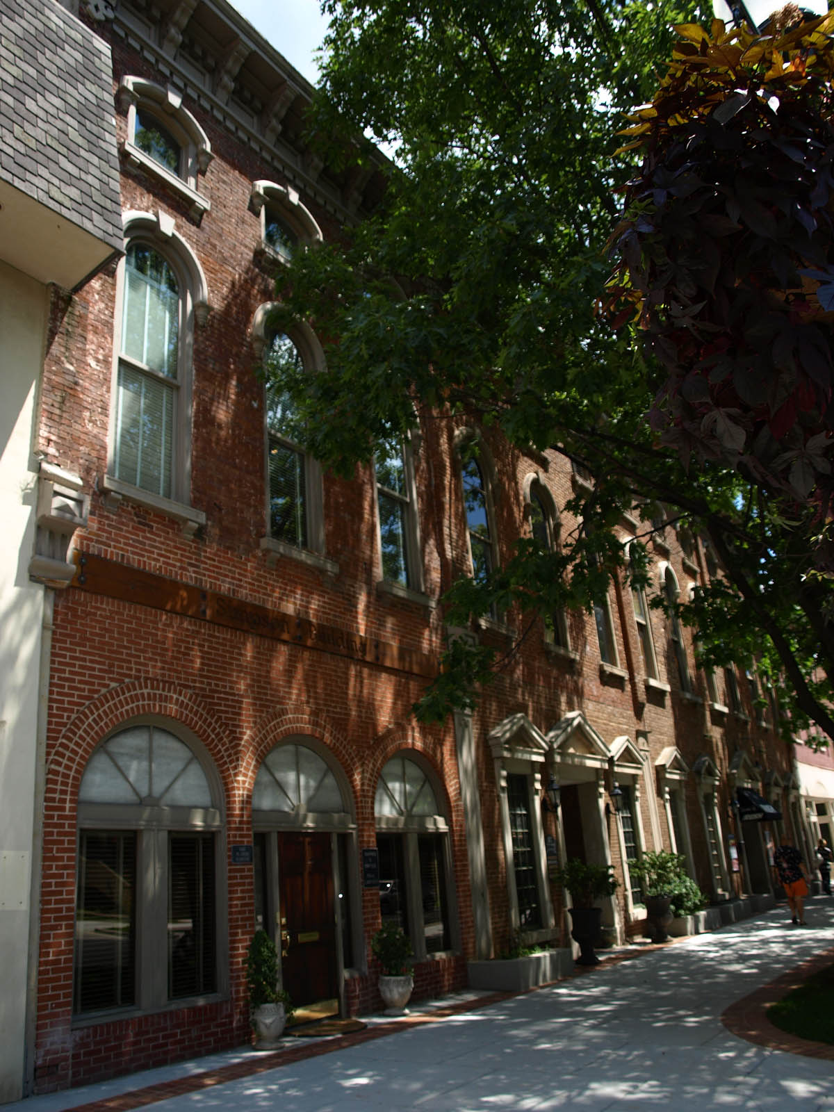 Donegan Block in Huntsville, Alabama, listed on the National Register of Historic Places.